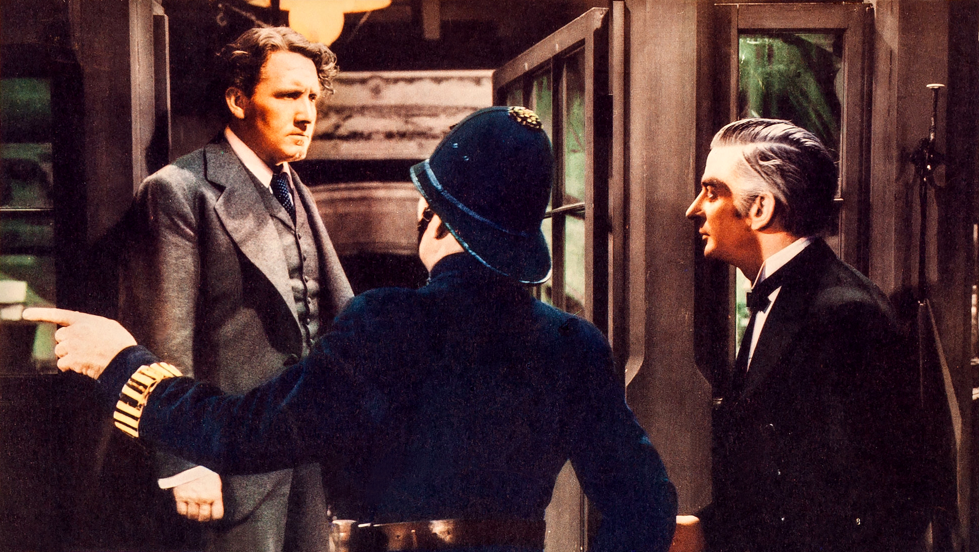 Cropped and edited lobby card for Dr. Jekyll and Mr. Hyde (MGM, 1941), featuring Spencer Tracy as Doctor Jekyll. Image is assumed to be in the public domain as no copyright notice is in evidence.